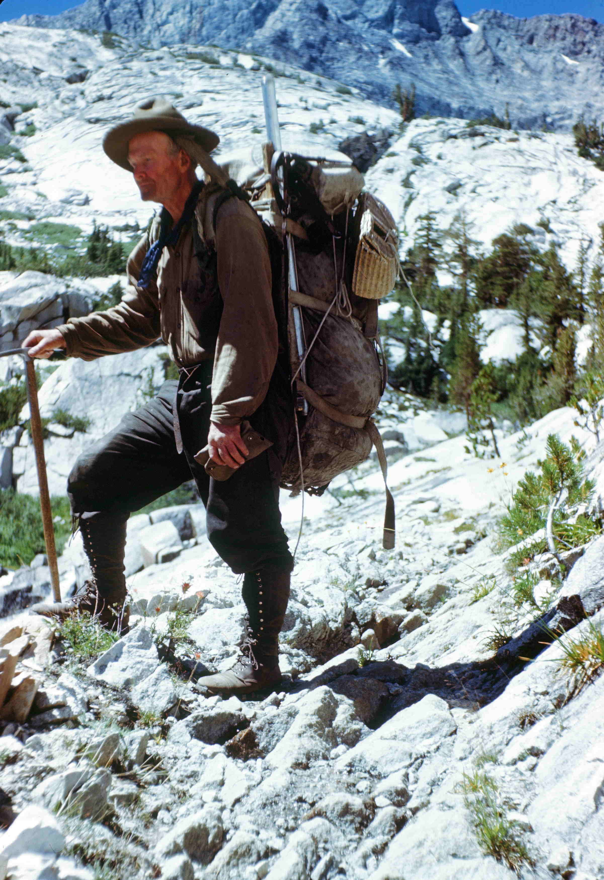 Norman Clyde at Le Conte Canyon on John Muir Trail profile